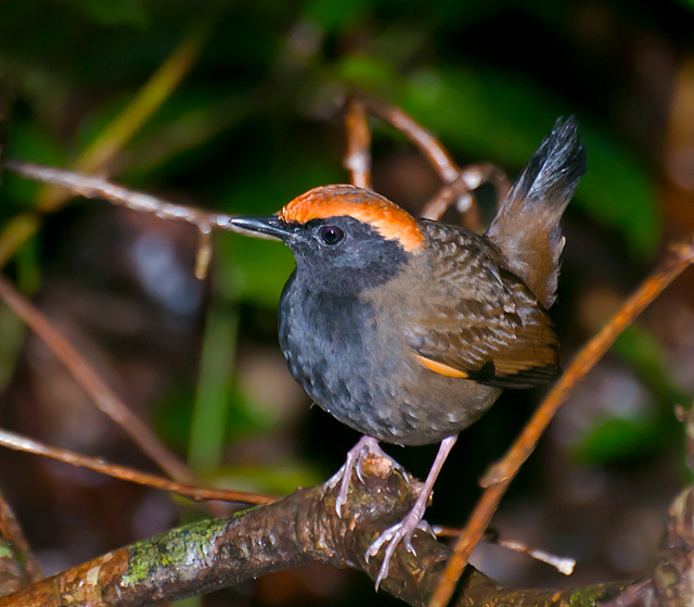 A Rufous-capped Antthrush in Vale do Ribeira, Registro, São Paulo, Brazil.